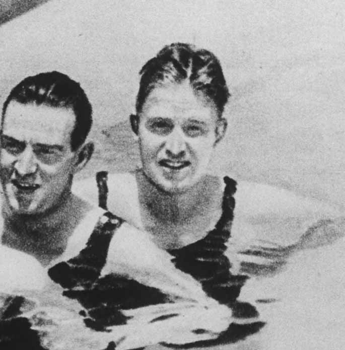 Eskil Lundahl at the Los Angeles Olympics